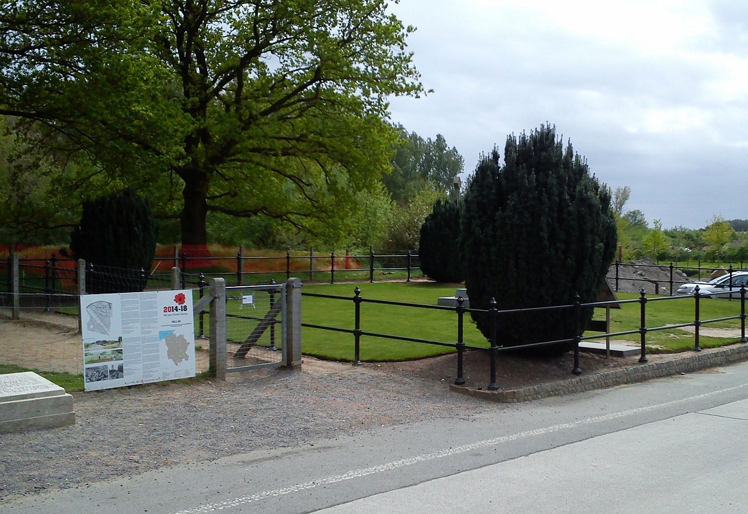 Hill 60, Ypres, Belgium: entrance to the battlefield memorial park